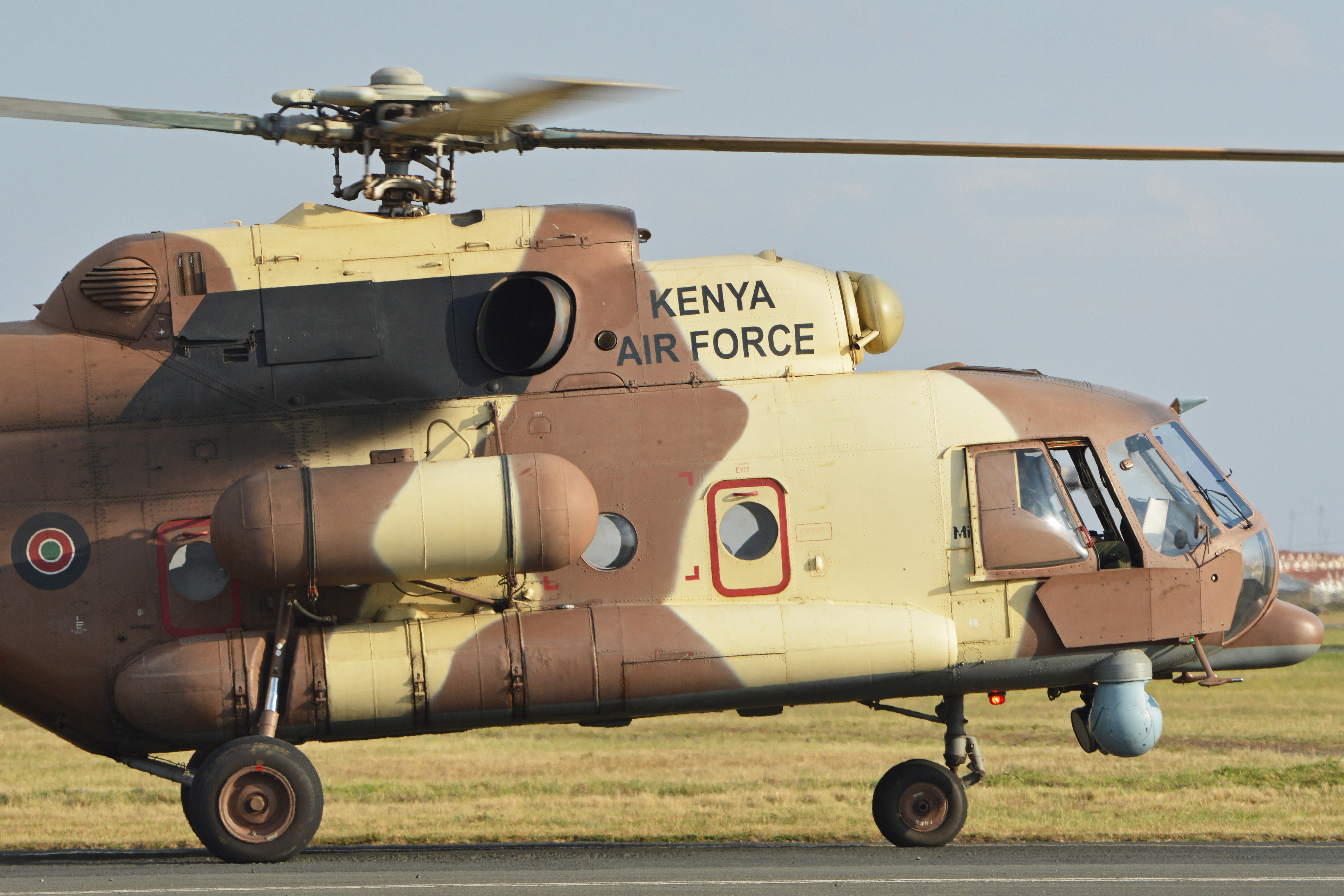 Mil Mi-171E 'KAF 1101' Kenya Air Force Forward fuselage detail on Kenyan Air Force Mil Mi-171E 'KAF 1101'. c/n 4308. Seen at Wilson Airport, Nairobi, Kenya.